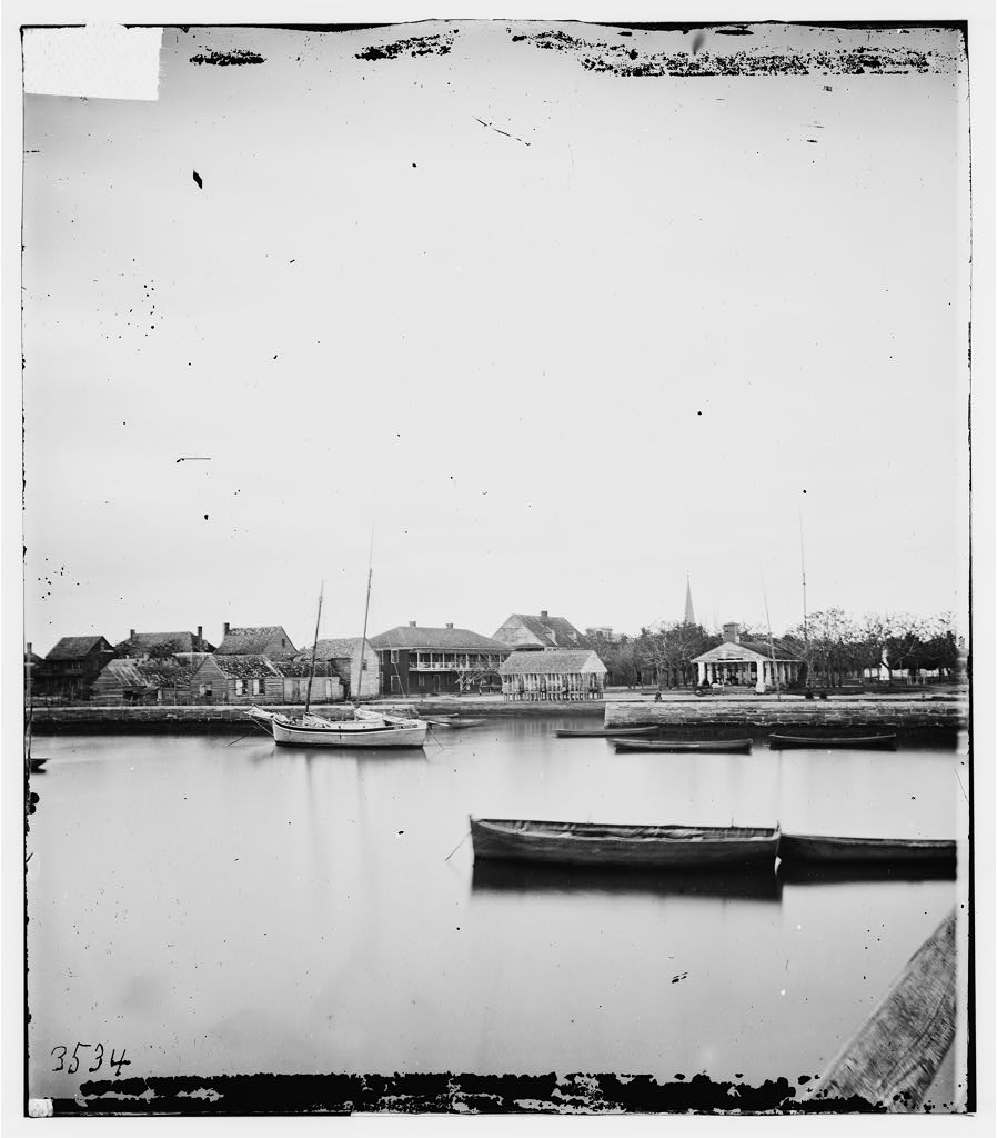 St. Augustine, Florida waterfront, 1860's